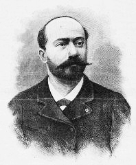 French composer, violinist and conductor Alexandre Luigini (1850-1906). Illustration from Les Annales lyonnaises illustrées, 8 May 1887.